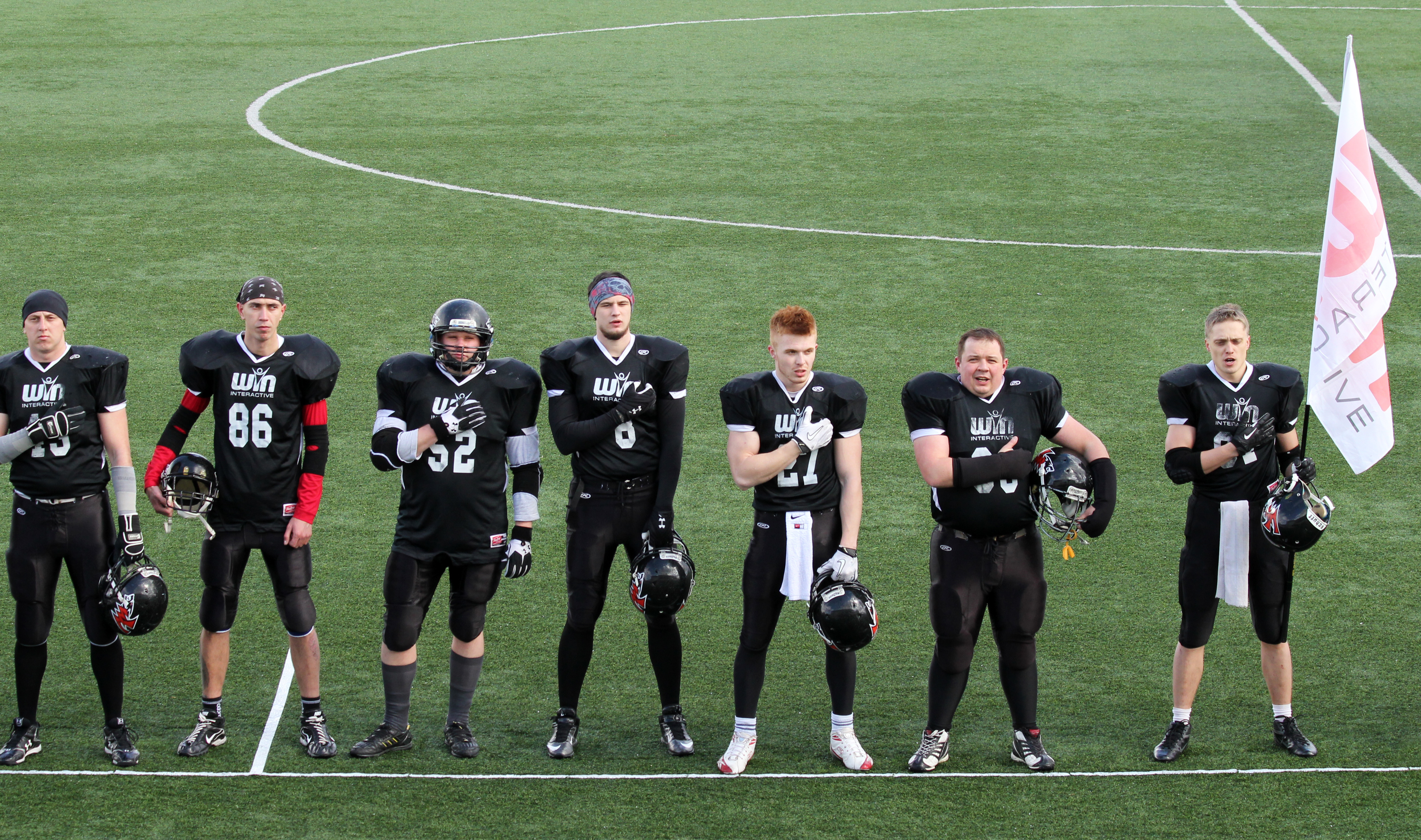 American football in Ukraine. Friendly match "Vinnytsia Wolves" vs "Slavs" Kyiv. 04.04.2015. Vinnytsia.